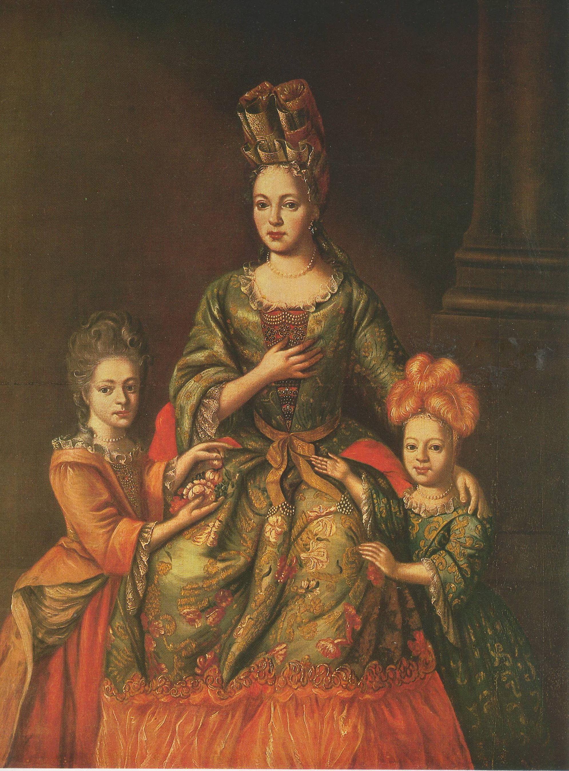 Anastasia Naryshkina, wearing fontange, with her daughters Alexandra and Tatyana